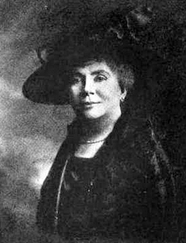 Helen Varick Boswell, from a 1921 publication.